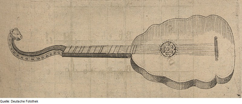 Original image description from the Deutsche FotothekMusik & Harmonik & Saiteninstrument & Chordophon & Zupfinstrument & Laute & Orpharion & Pandora